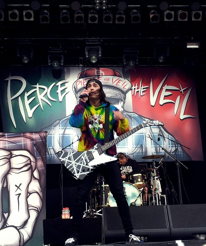 Pierce the Veil performing live on Clubstage at Rock am Ring 2013